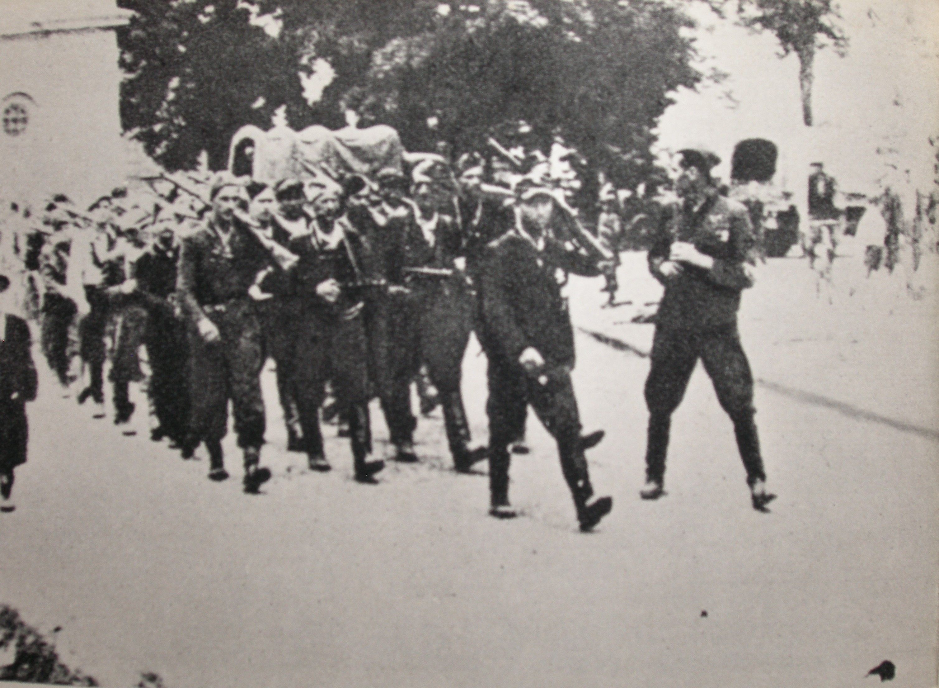 Wkroczenie Kompanii AK "Wiklina" do Zamościa w lipcu 1944 r.